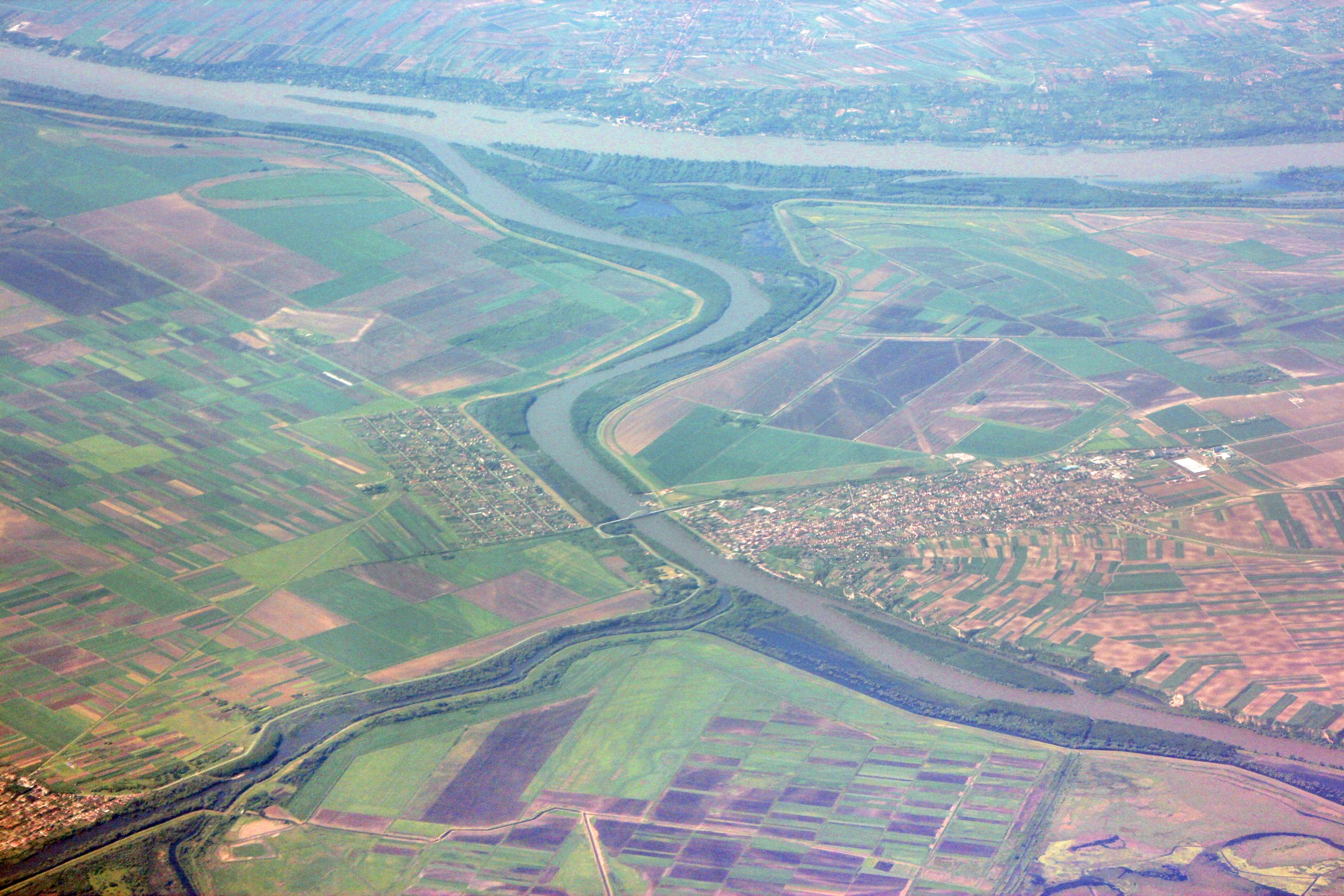 Titel and Knićanin, Serbia. View with Tisa River (Tisza) confluence with Danube.